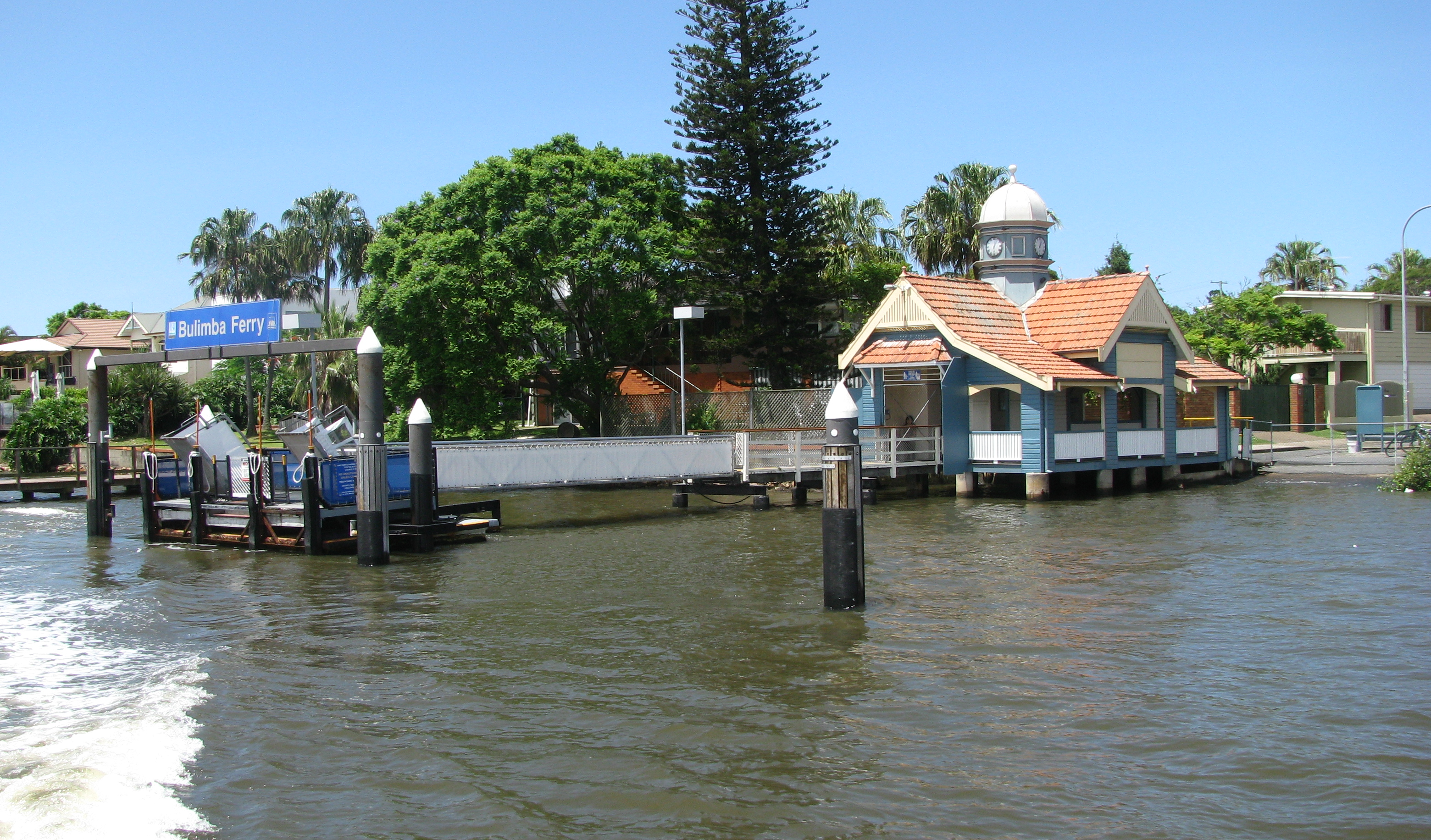 Bulimba ferry wharf viewed from the back of a CityCat.